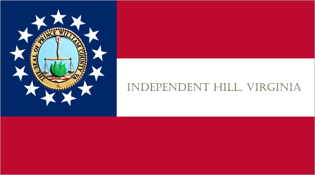 National Flag of the Confederate States of America and the Regimental Colours of the Prince William Cavalry, raised in 1861 at the nearby county courthouse.